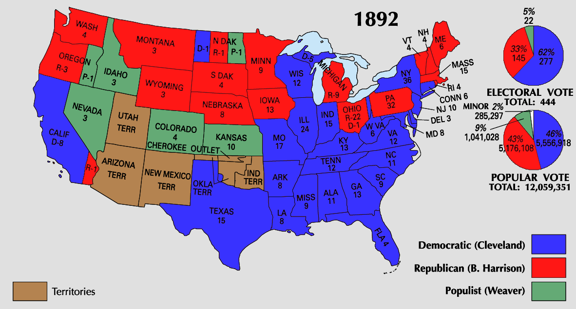 Results of the 1892 U.S. Presidential election, with states won by Benjamin Harrison in red, those won by Grover Cleveland in blue, and those won by James Weaver in green.